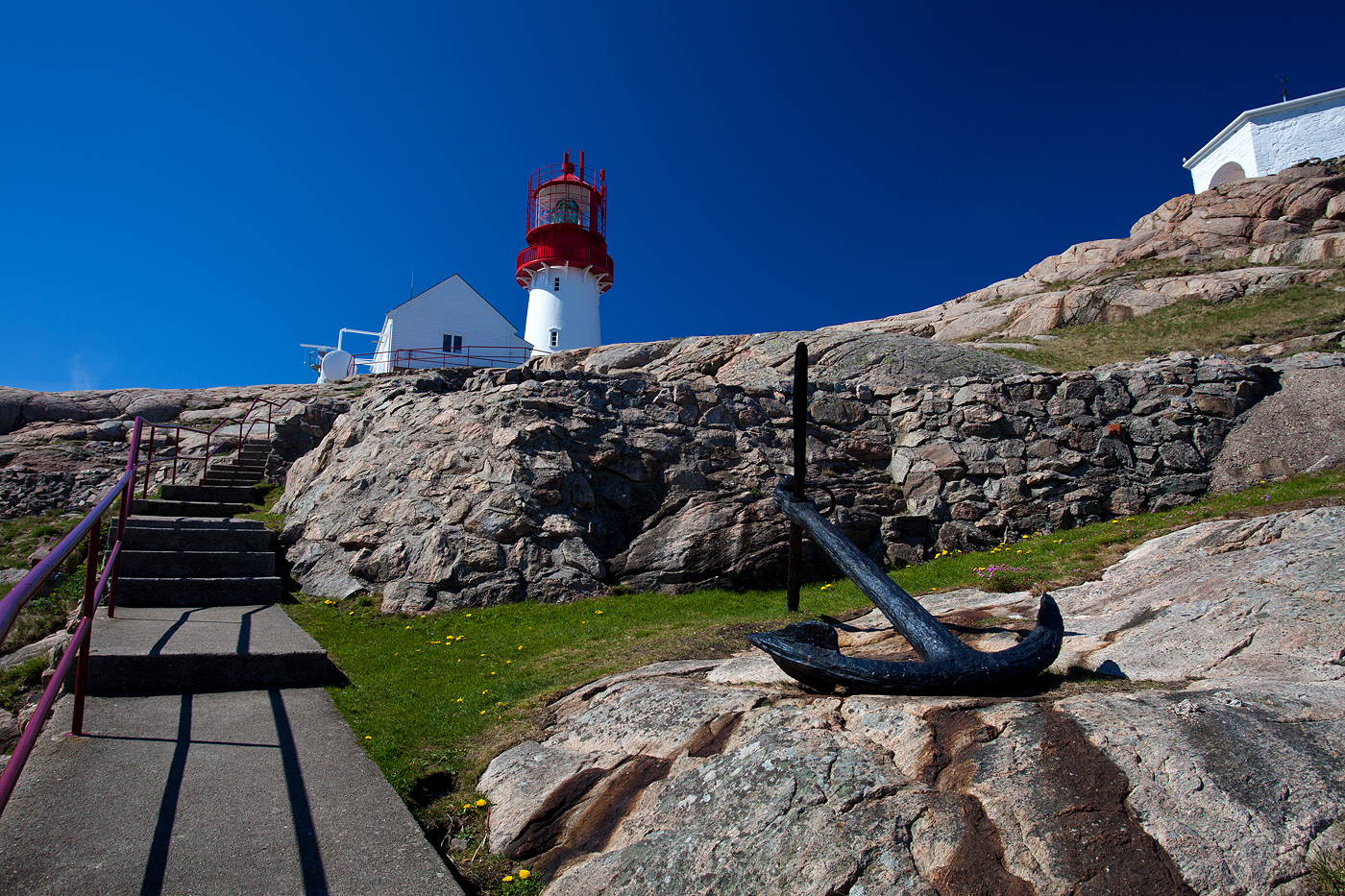 Lindesnes fyr Lindesnes Lighthouse Norway